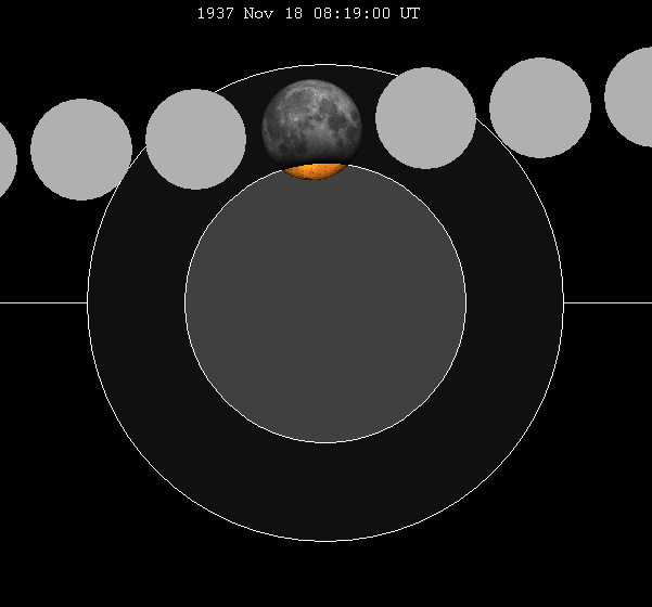 Lunar eclipse chart of moon's path through the earth's shadow. thumb